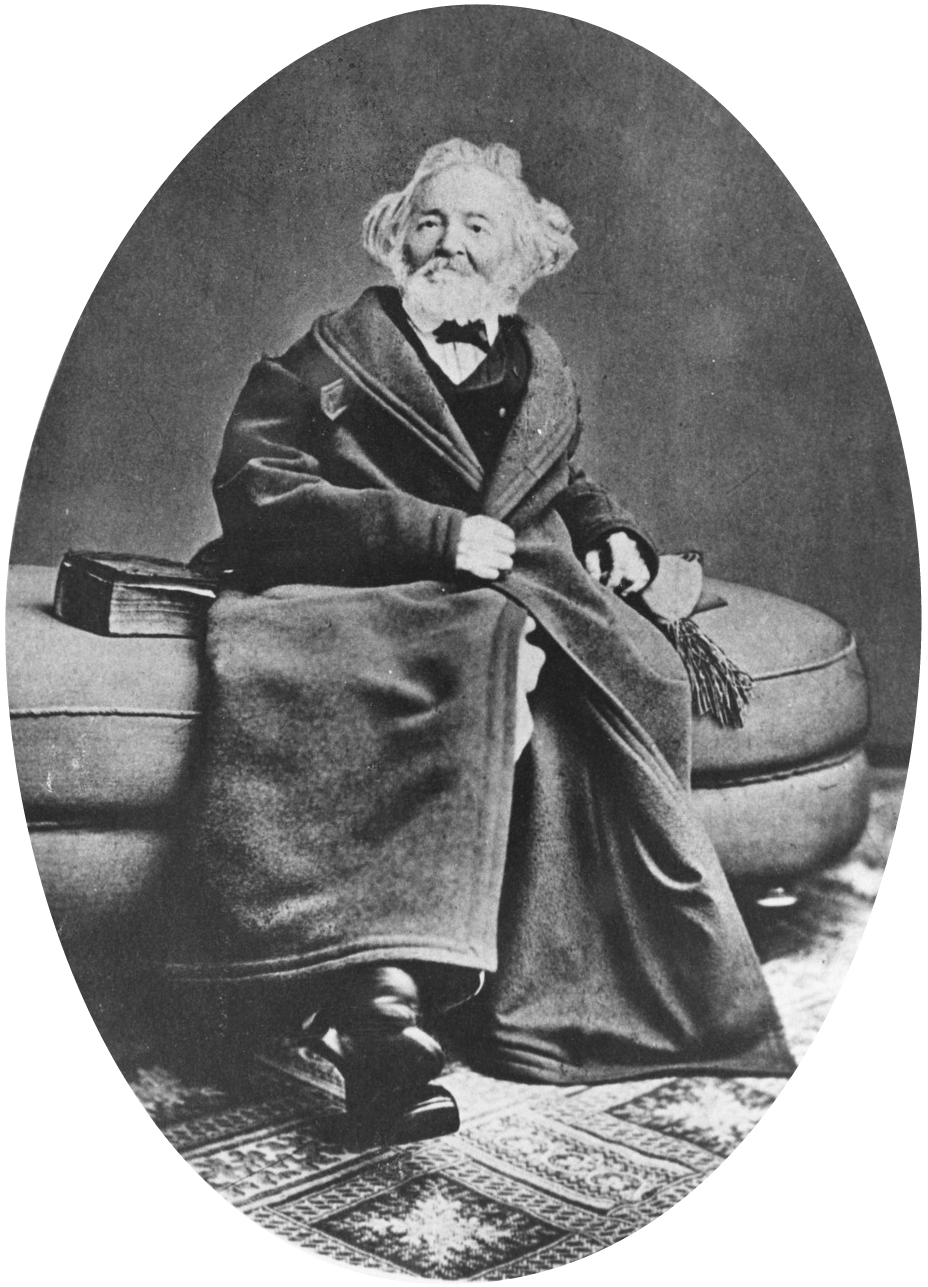 Robert Graves" Great Uncle (cf. Goodbye revised 1987, p. 3) Leopold Von Ranke, 1877 (inscription on back "about 82 years old, nach Plot vim Besitz von A. Salmisch Fruhing Br.") - undated photograph of a photograph from 1877 Source: [1]